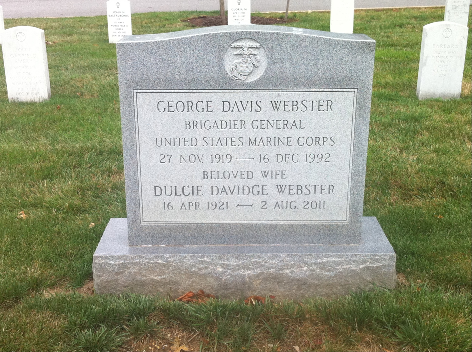 Grave of George D. Webster (USMC) at Arlington National Cemetery